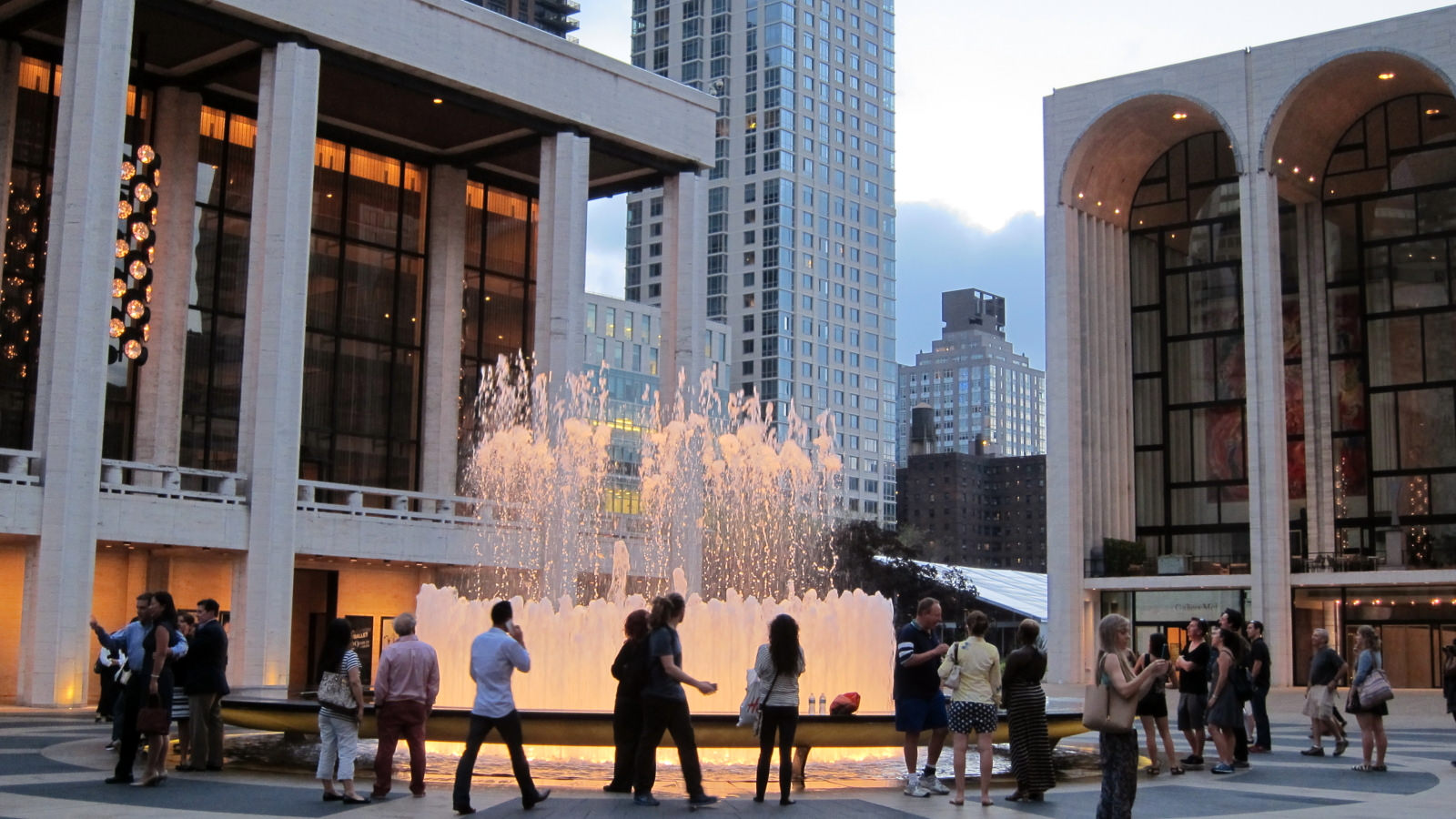 150919 003 Lincoln Center - Revson Fountain, Koch Theater, Metropolitan Opera